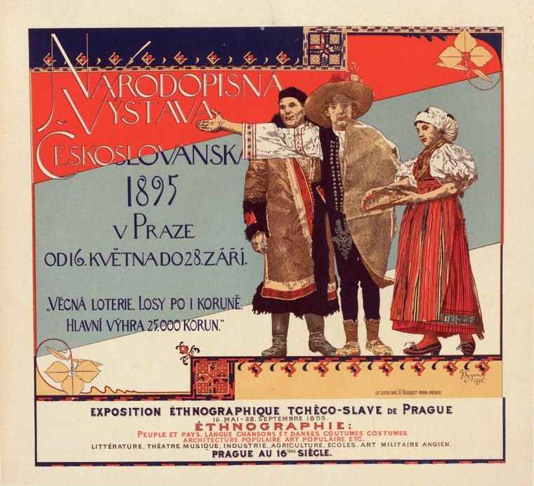 Poster of Czech-Slav etnographic exhibition in Prague, 1895